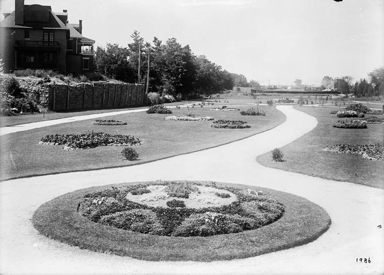 A view of Central Park, Ottawa.